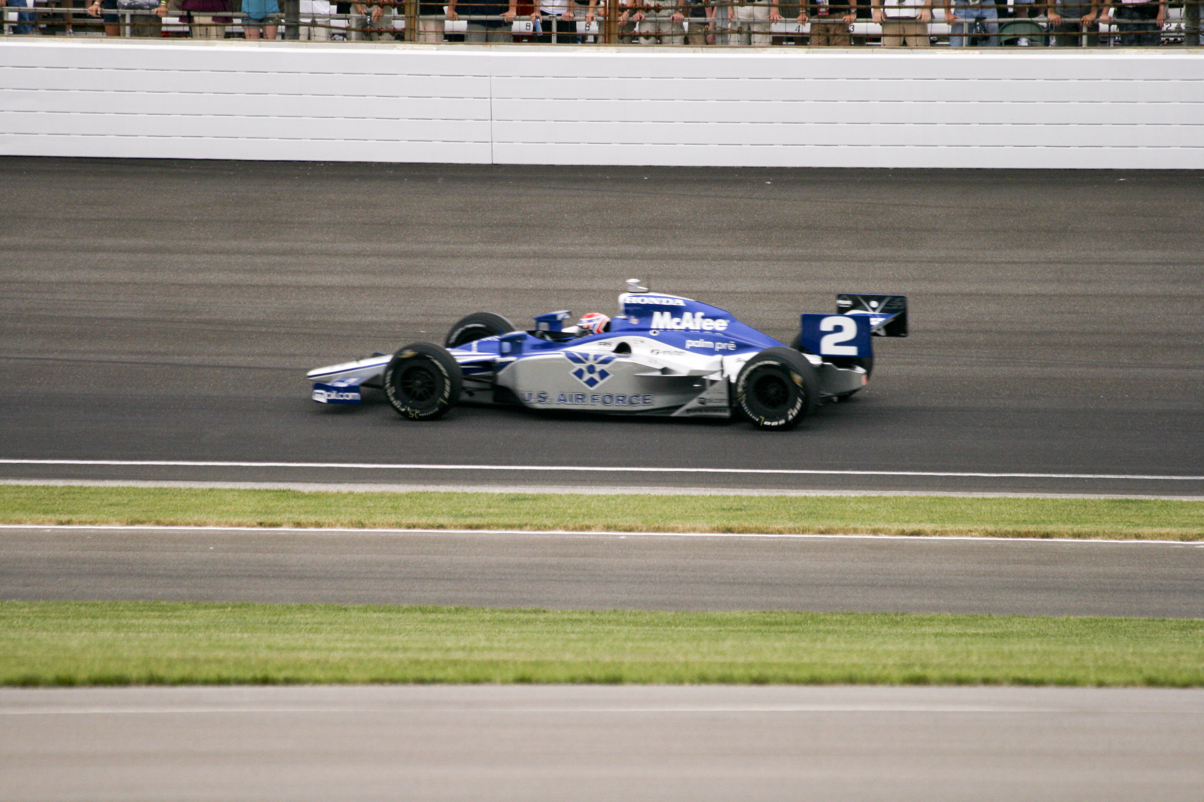 Raphael Matos driving in the 2009 Indy 500